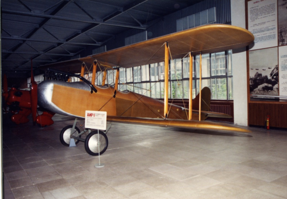 PictionID:42251308 - Title:Yakovlev ANP-1 Yakovlev ANP-1 [AIR-1] Yakovlev Museum Moscow Sep93 1 - Catalog:15_003172 - Filename:15_003172.tif - --- Image from the Charles Daniels Photo Collection album "Moscow Air Museums" which contains images Mr. Daniels took while visiting Russia----PLEASE TAG this image with any information you know about it, so that we can permanently store this data with the original image file in our Digital Asset Management System.----SOURCE INSTITUTION: San Diego Air and Space Museum Archive